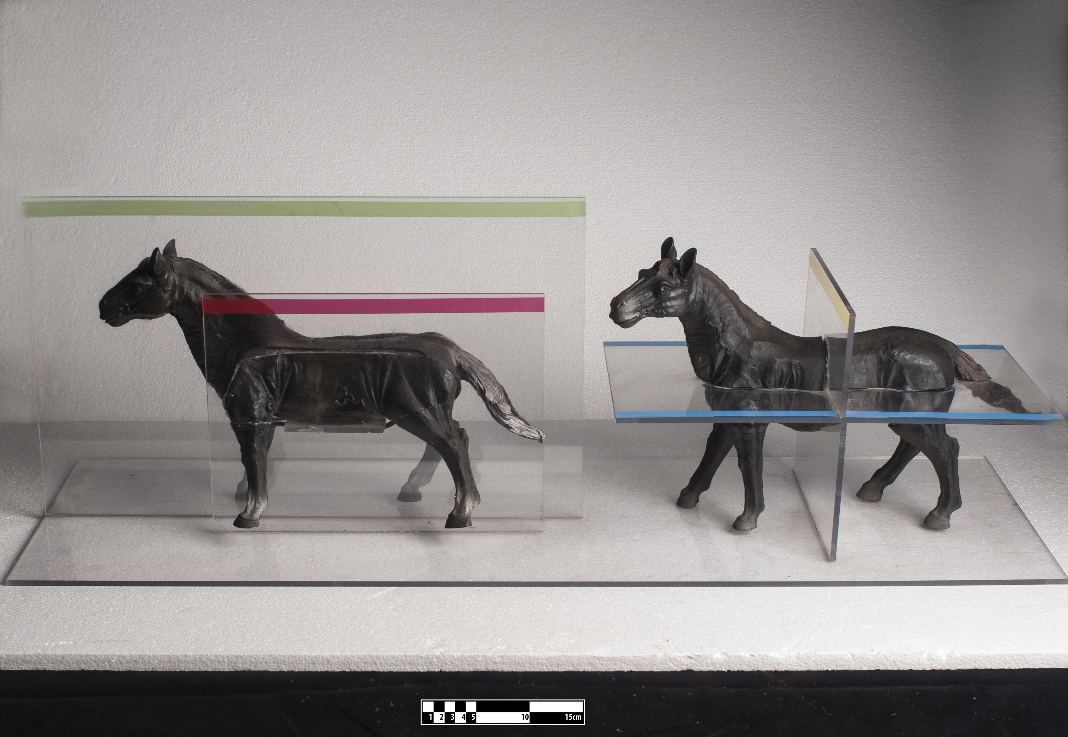 Didactic model of anatomical planes. Teaching model representing the anatomical planes transecting a horse. Displayed at the Museum of Veterinary Anatomy, FMVZ USP. This file was published as the result of a partnership between the Museum of Veterinary Anatomy FMVZ USP, the RIDC NeuroMat and the Wikimedia Community User Group Brasil. This GLAM project is reported. Photography: Museum of Veterinary Anatomy FMVZ USP. Author: Wagner Souza e Silva.